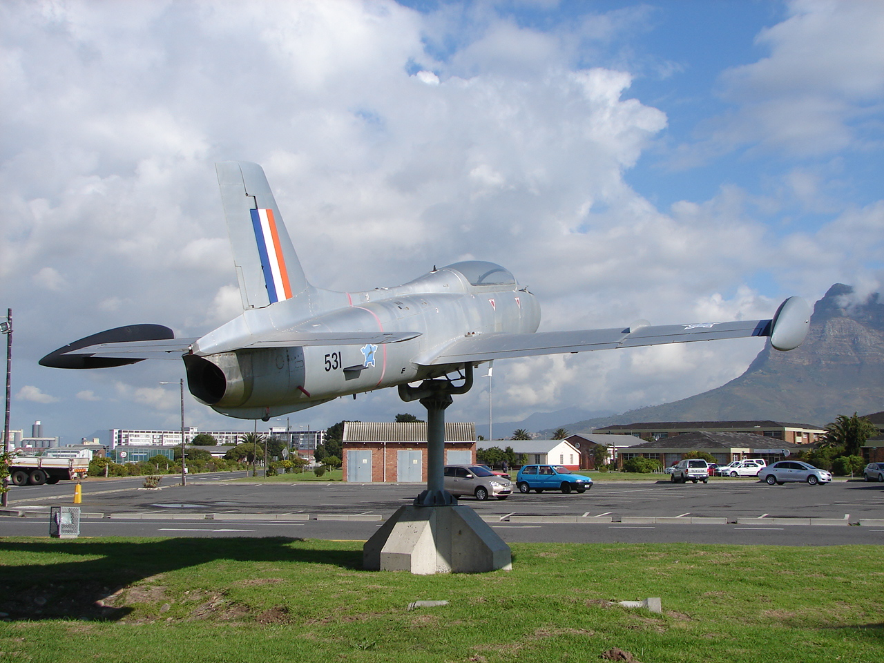 Impala Mk I no. 531 as gate guard at Air Force Base Ysterplaat in Cape Town